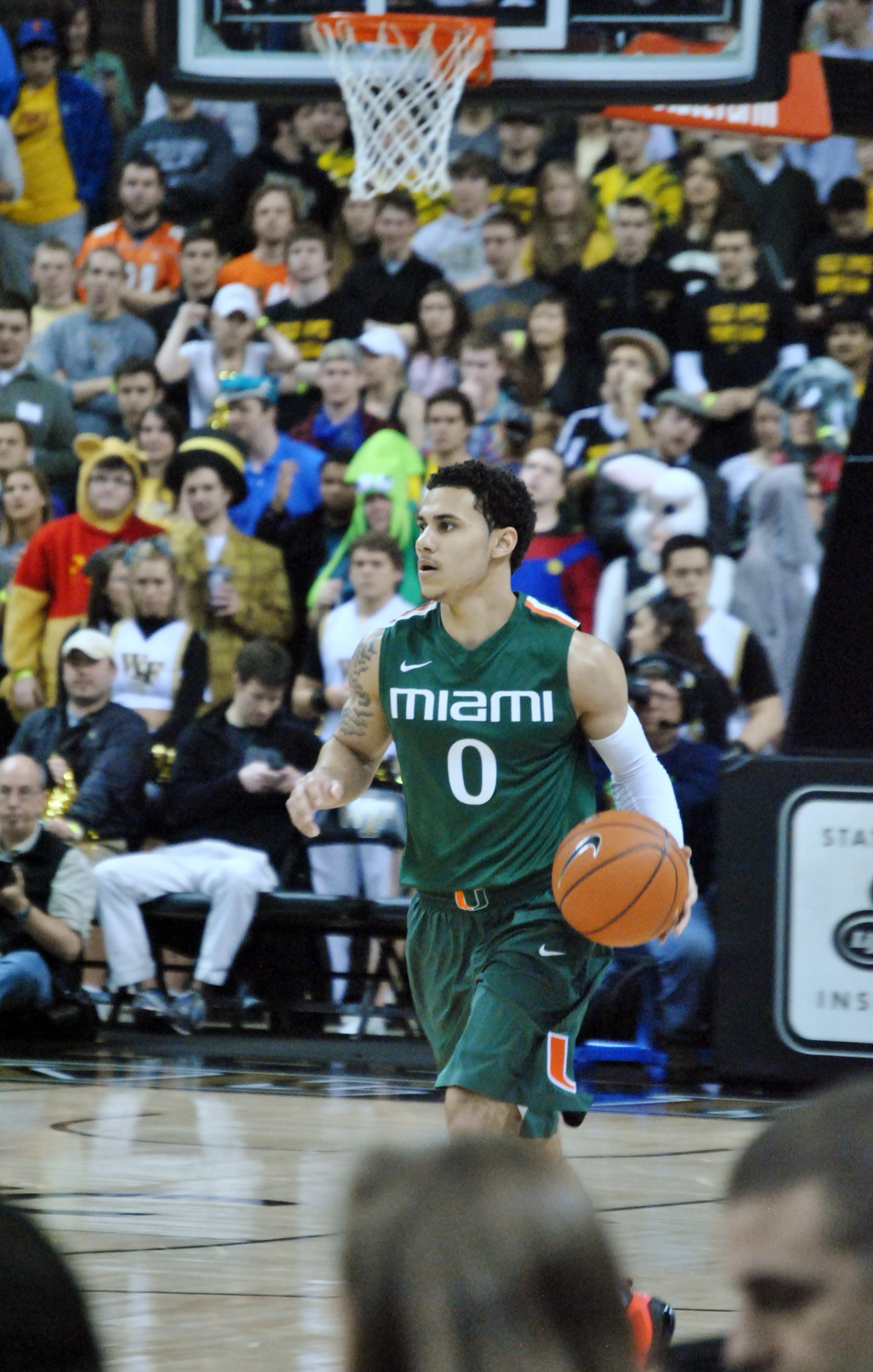 Shane Larkin handles the ball for the Hurricanes